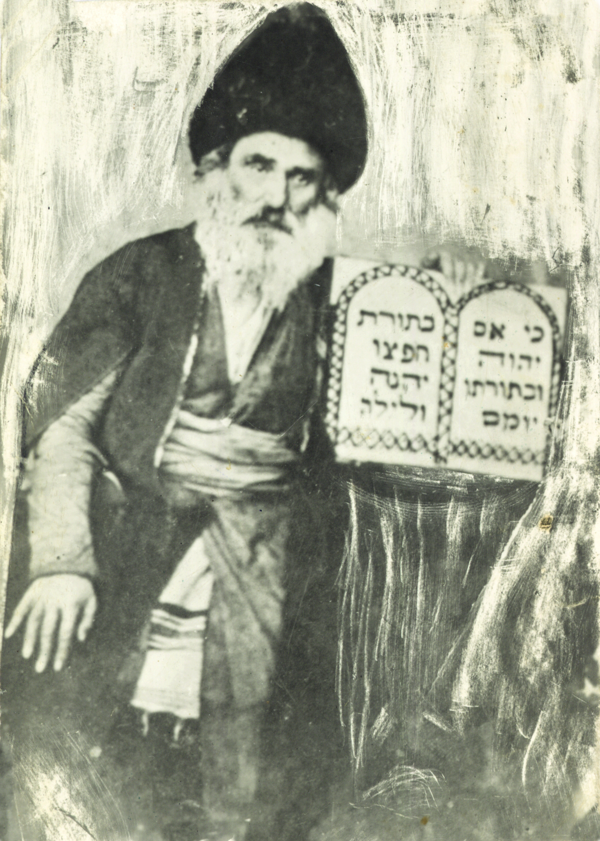 Gershon Bar Reuben Mizrahi ( 1815 - 1891 , Caucasus, Guba City (Cuba) ) - Chief Rabbi of the Caucasus, Kabbalist , Hasid , spiritual leader of Mountain Jews of the whole Caucasus.